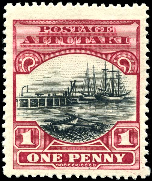 Aitutaki one-penny stamp of 1920